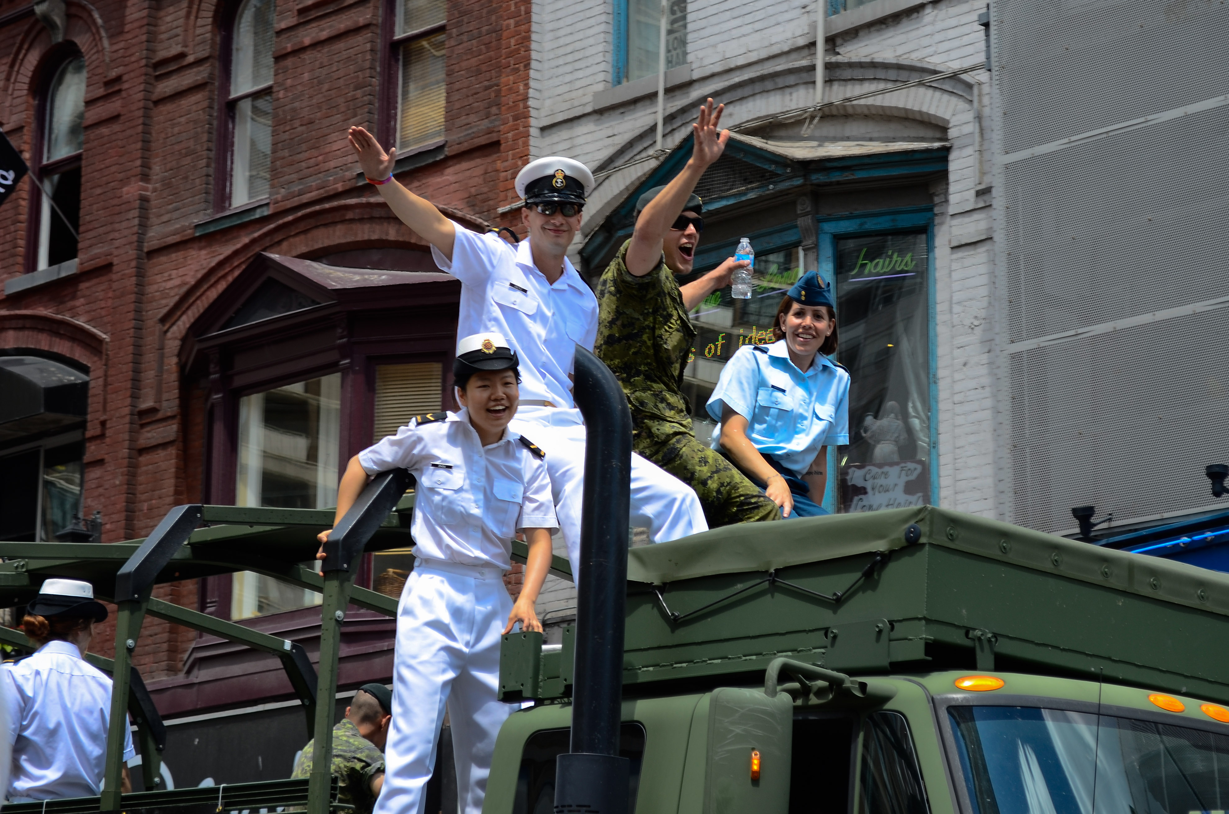 Members of the Canadian Forces in the pride parade in Toronto, Ontario, Canada.